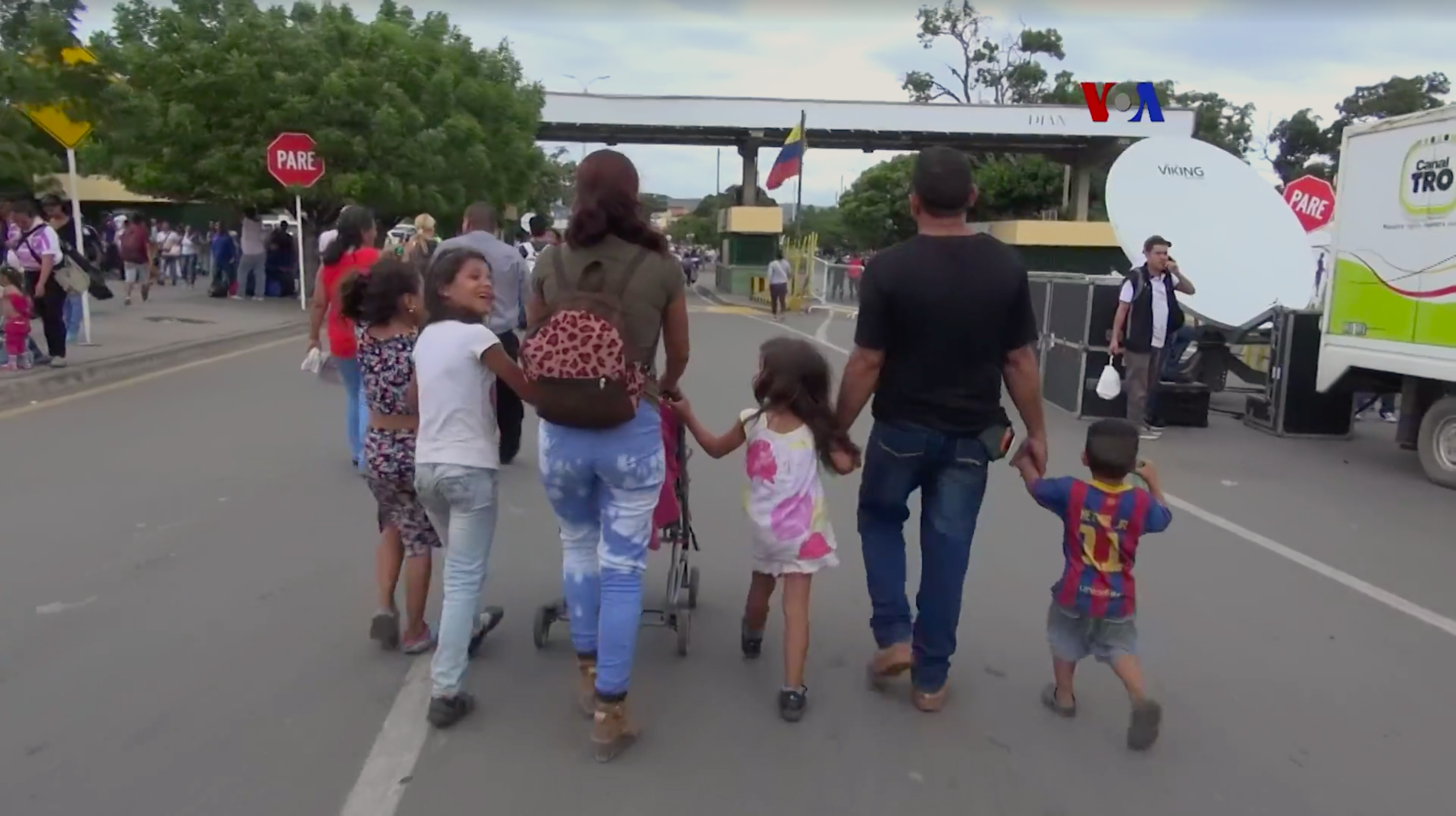 A Venezuelan family entering Colombia after emigrating from their native country of Venezuela.